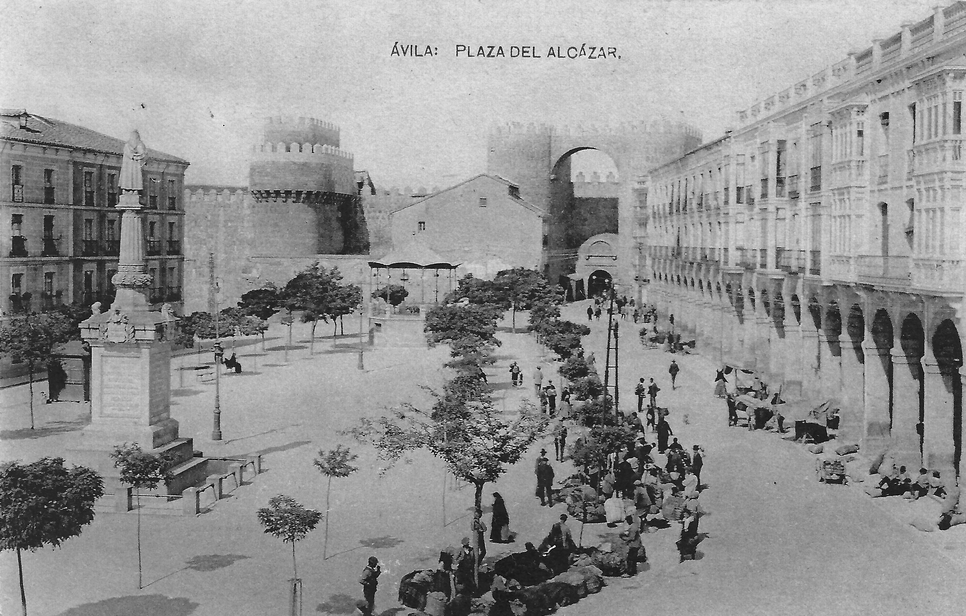 Santa Teresa Square, Ávila (Spain) in 1923.